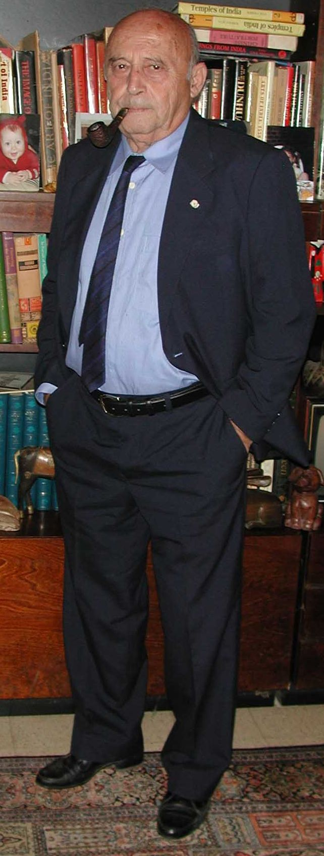 Photo of Eli Lancman